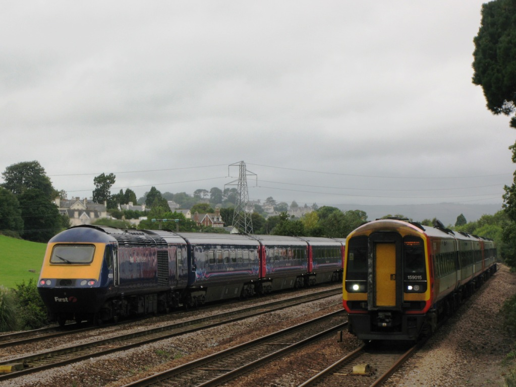 Aller Junction at Newton Abbot, Devon, England, is where the Paignton branch leaves the main line from London to Penzance. On the left a First Great Western train from Plymouth to London, with power car 43093 on the back; on the right a South West Trains service lead by 159015 has just diverged onto the branch with a train from London Waterloo.